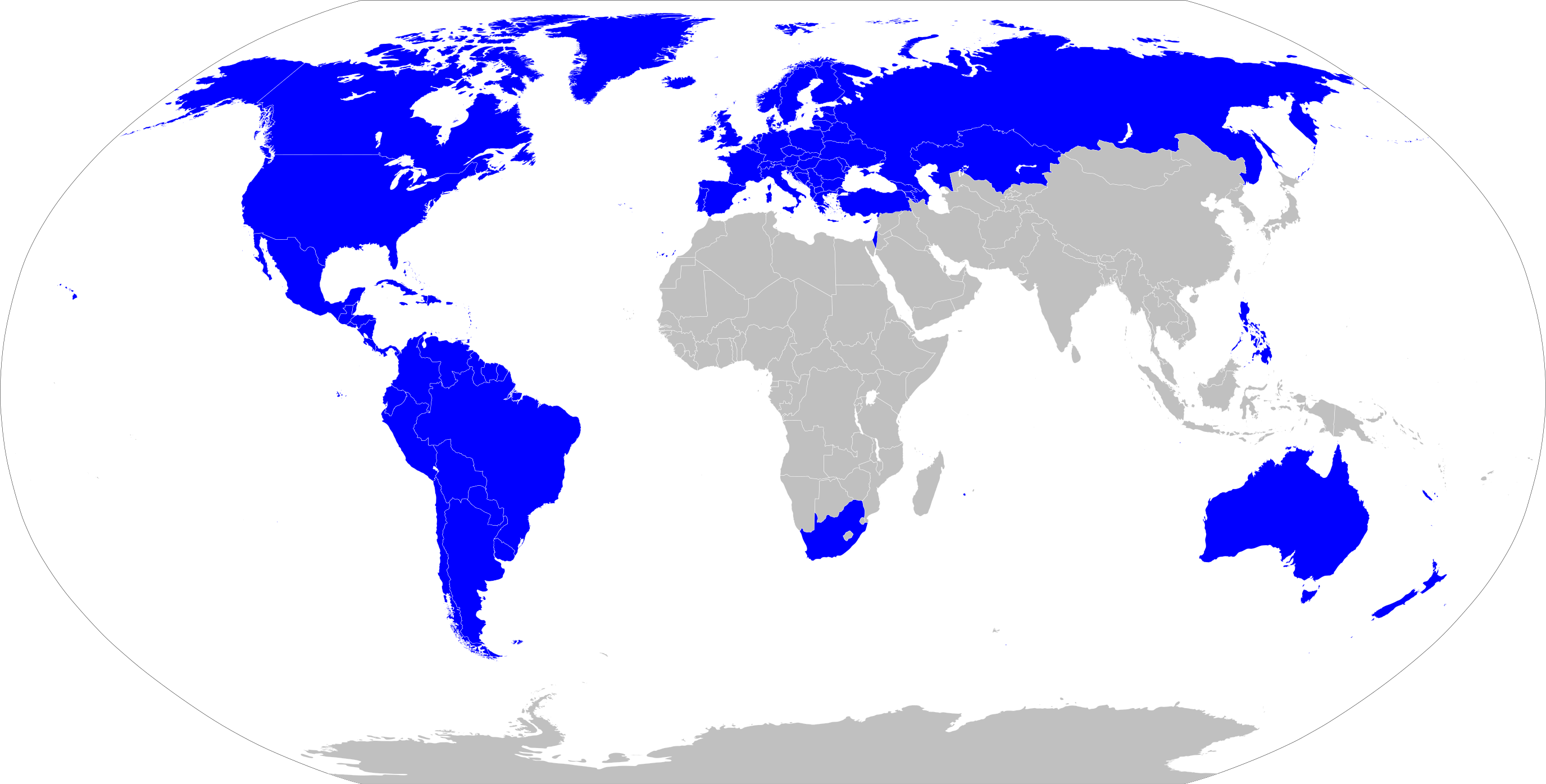 Western cultures 2015